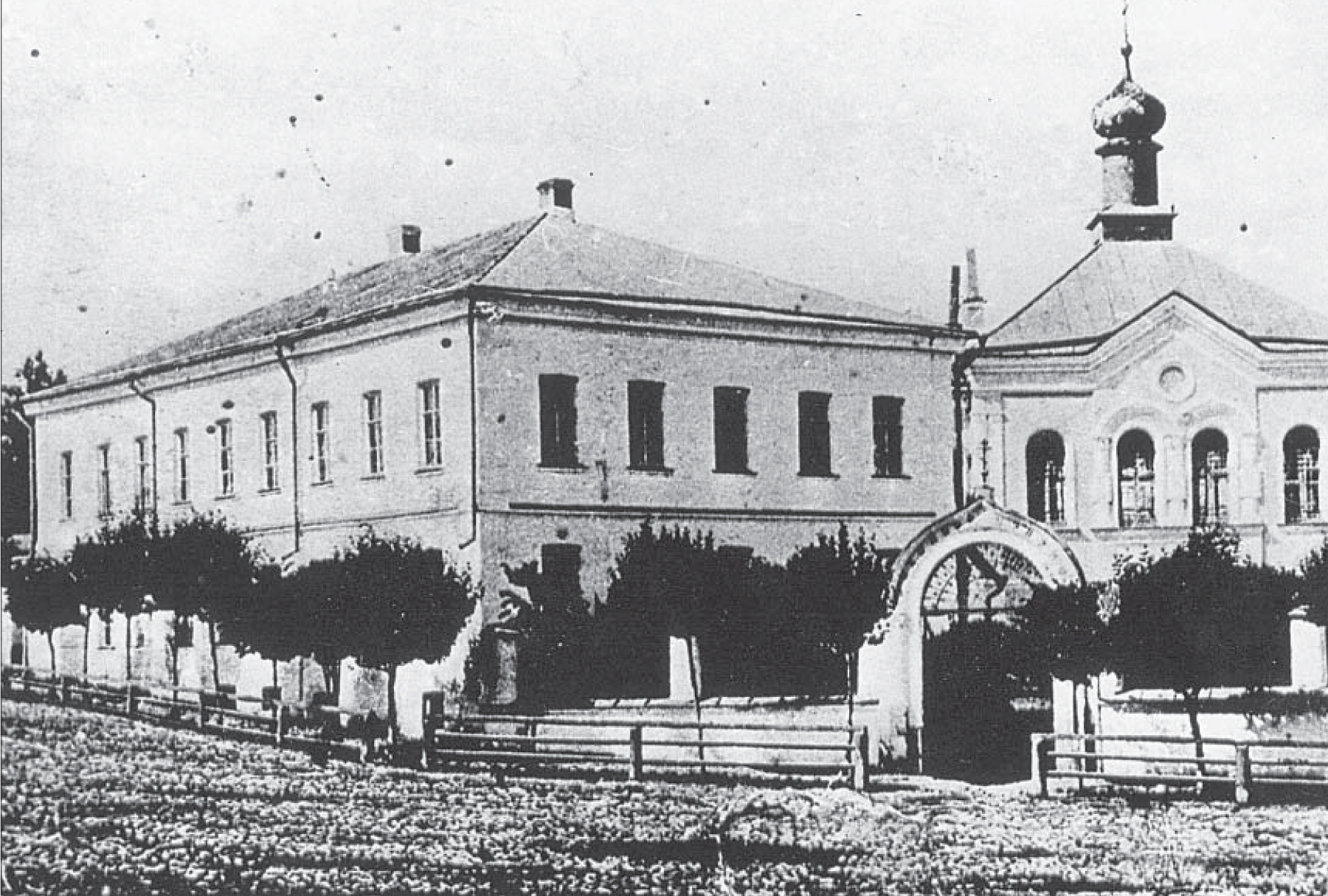 A religious school in Torzhok